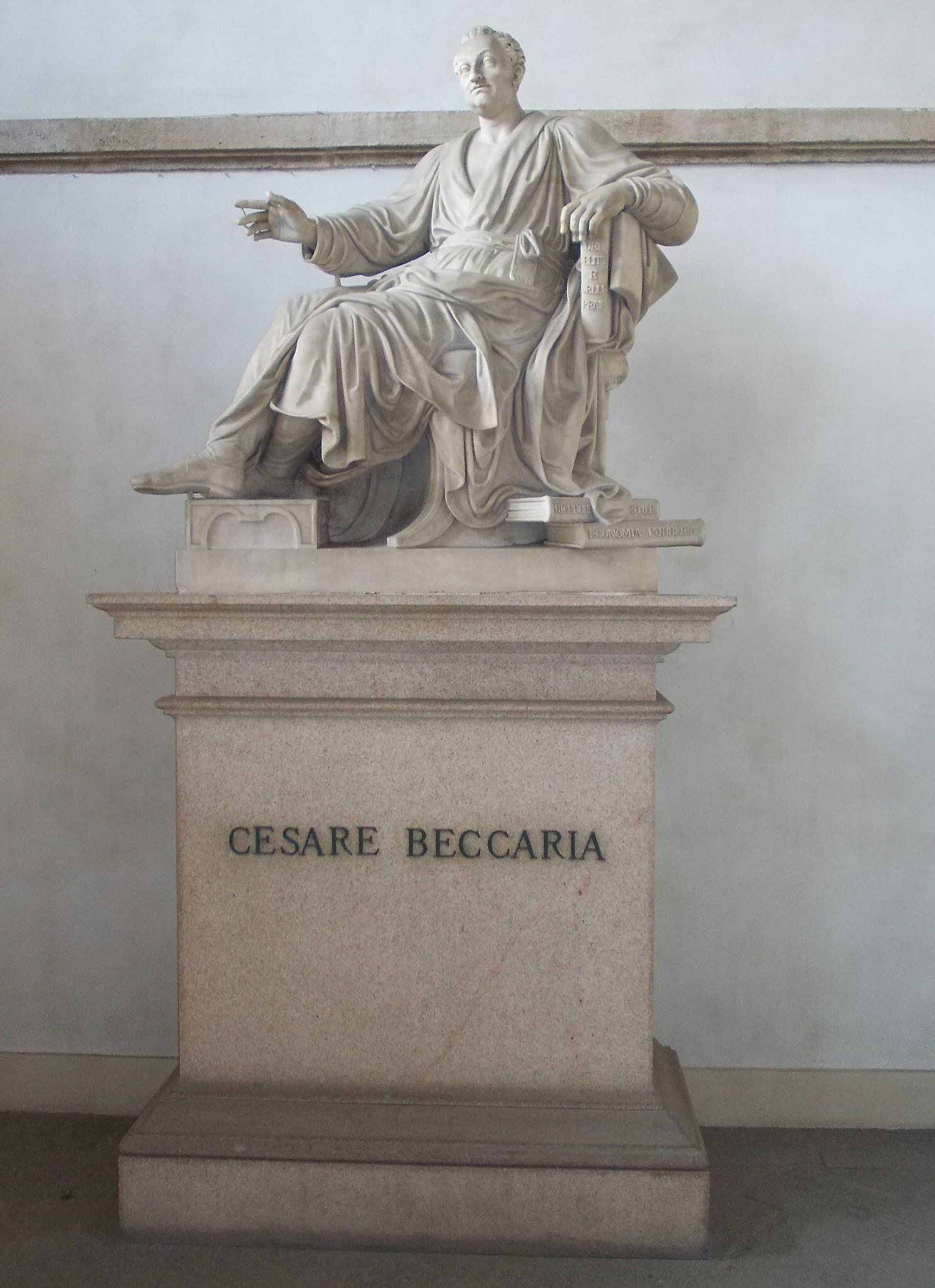 Marble statue of Cesare Beccaria, pioneering criminologist, in Pinacoteca Brera, Milan, Italy